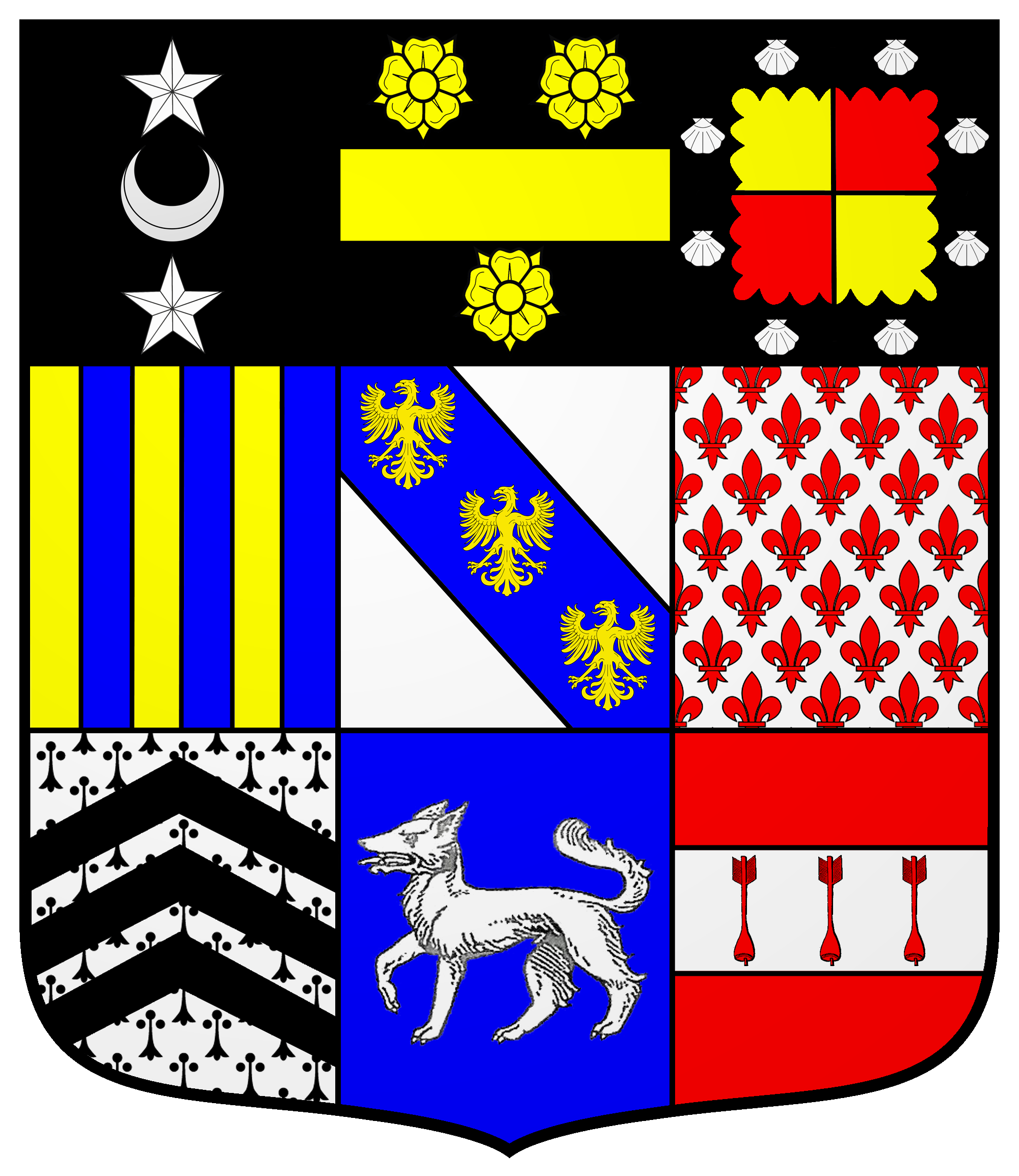 Blazon of Sir Thomas Jermyn Knight and family as described in The Visitation of Suffolk 1561: Quarterly of nine: 1, Sable, a crescent between two mullets in pale argent (Jermyn); 2, Sable a fess between three roses or (Rushbrook);. 3, Quarterly or and gules, on a bordure engrailed sable eight escallops argent (Heveningham); 4, Paly of six or and azure (Jarvill); 5, Argent, on a bend azure three eagles displayed or (Gissinge); 6,Argent, semy of fleurs-de-lys gules (Redesham); 7, Ermine, three chevrons sable (Reppes); 8, Azure, a hound passant argent (Burgon)[1]; 9, Gules, three bird-bolts in fess argent[2] (Bozum)